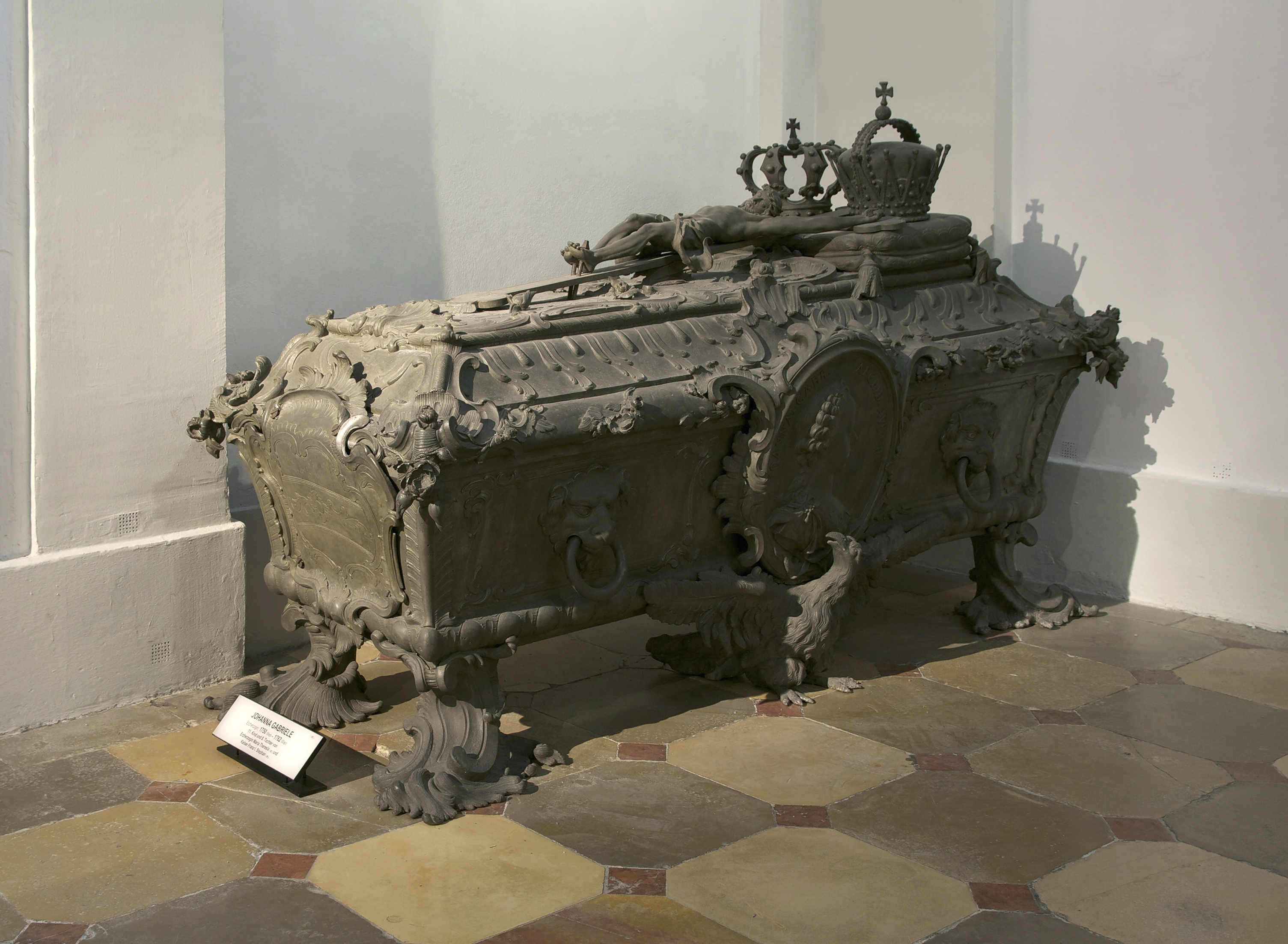 Sarcophagus of Johanna Gabriele, Archduchess of Austria, 11th child (total of 16), 8th daughter of Emperor Francis I of Lorraine and Empress Maria-Theresia. Died of smallpox at 12. Imperial Crypt, Vienna, Austria.